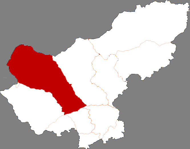 Locator map of Sonid Left Banner in Xilingol League, Inner Mongolia, China